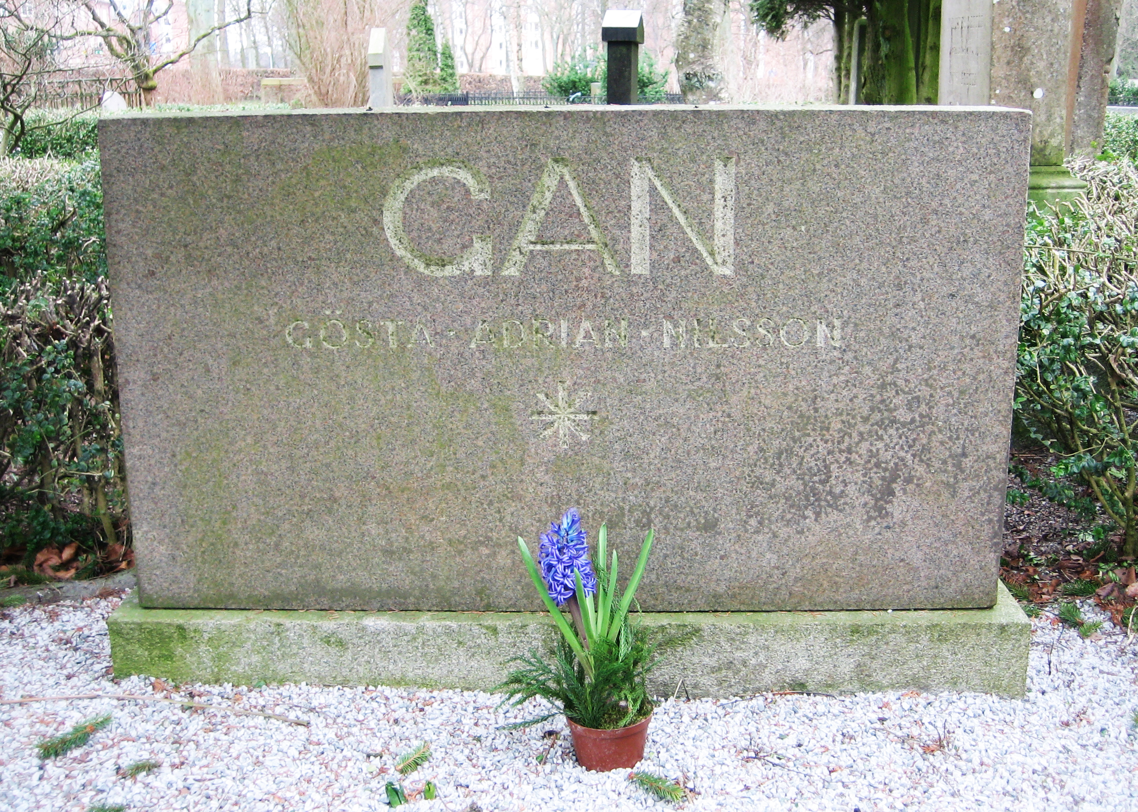 Grave of Gösta Adrian-Nilson, "GAN", (1884-1965), swedish artist. Photo taken by the uploader at Norra kyrkogården, Lund, Sweden.